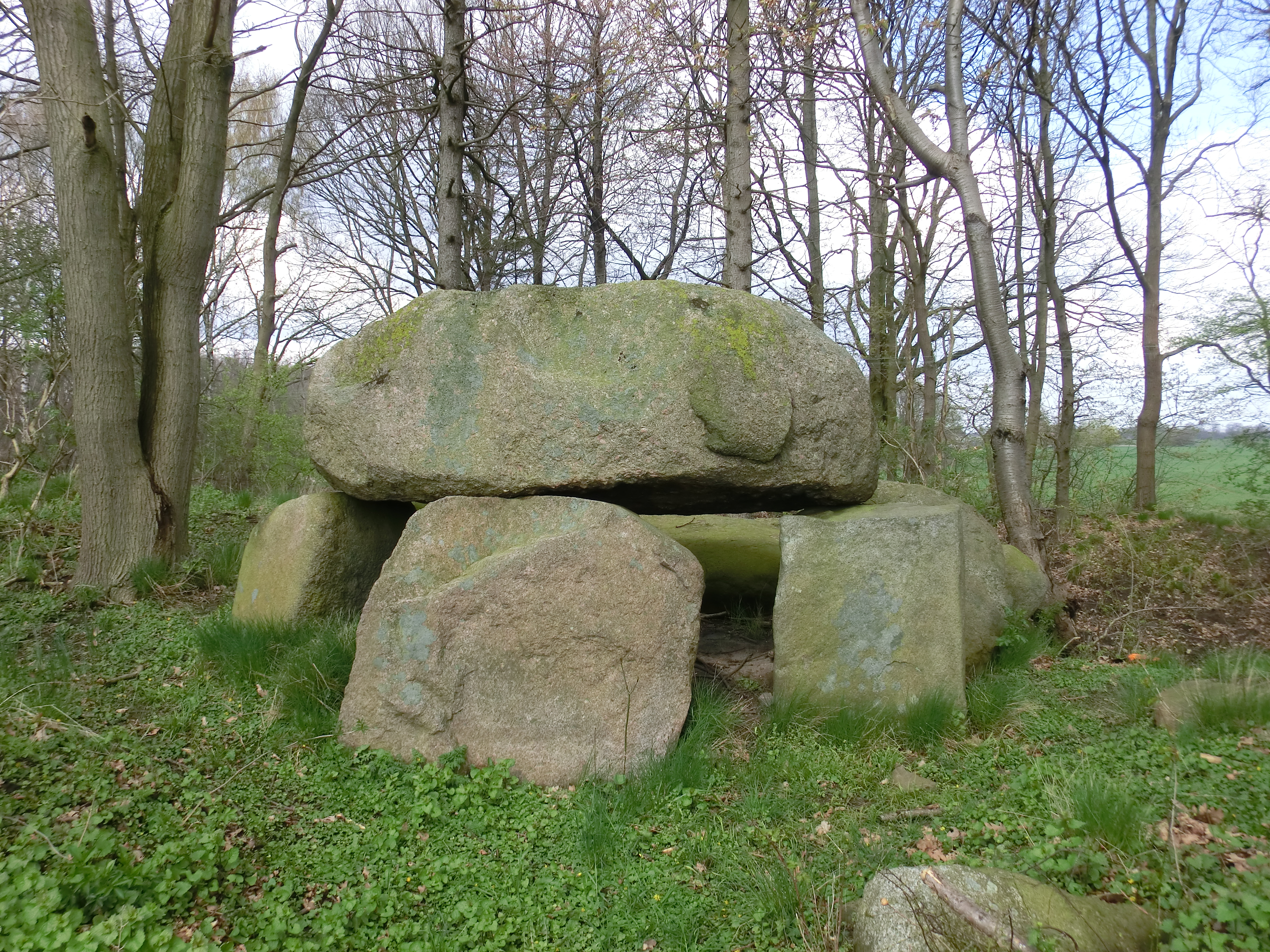 Dolmen Lonvitz 1, Island of Rügen, Mecklenburg-Vorpommern